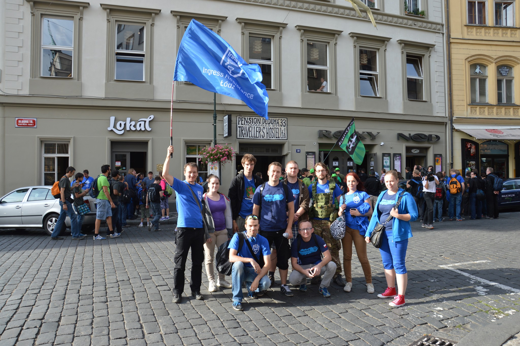 Resistance Agents in Prague after Helios anomaly event.